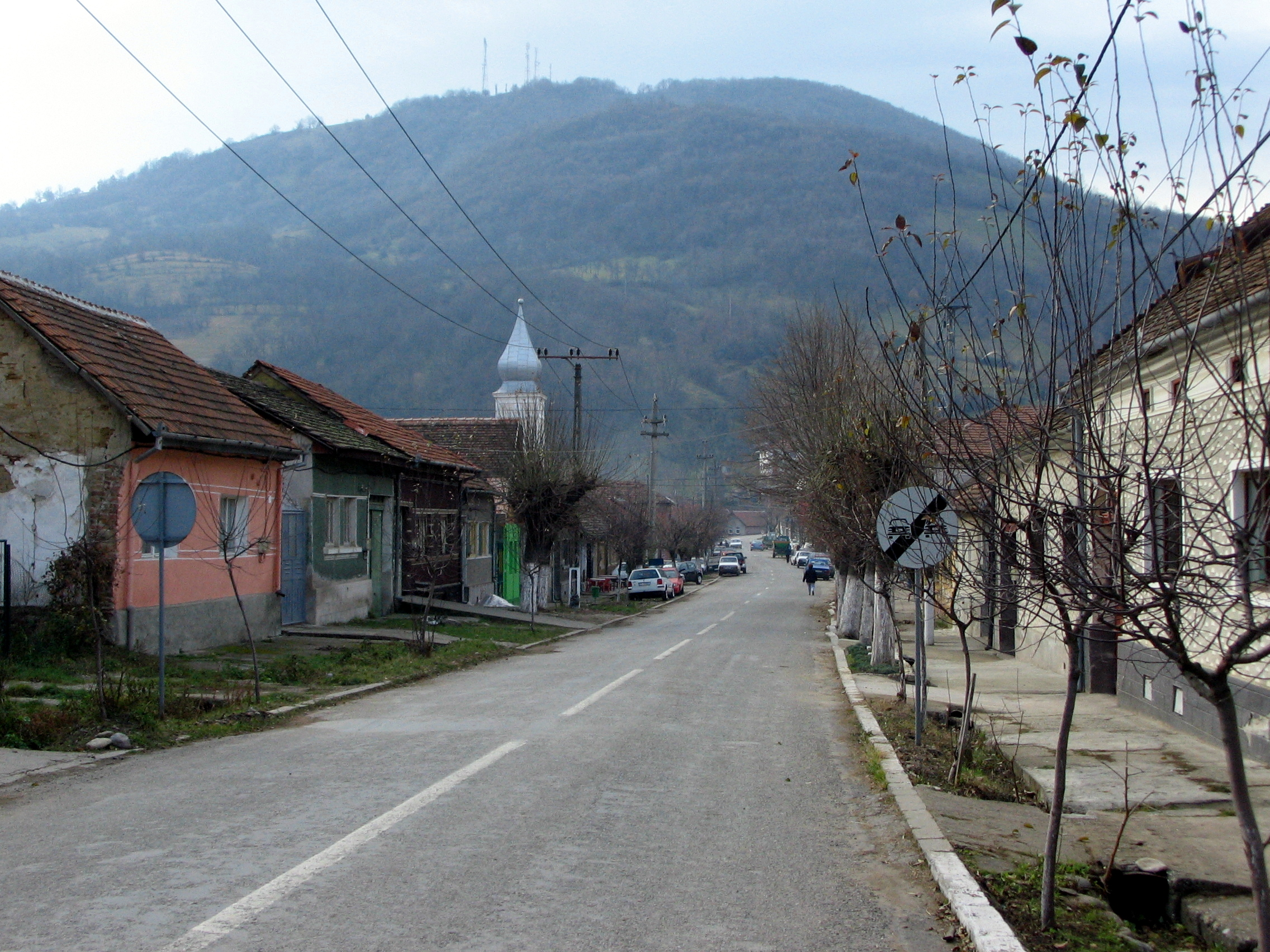 DN67D crossing the Pecinişca area of Băile Herculane, Romania